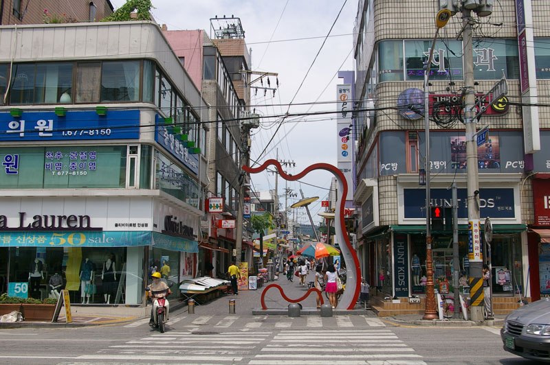 Anseong Downtown Entrance